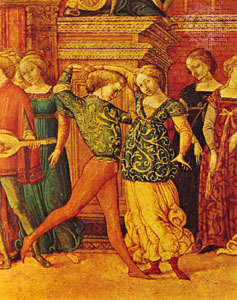 Galliard detail from a cassone panel depicting Antiochus and Stratonice